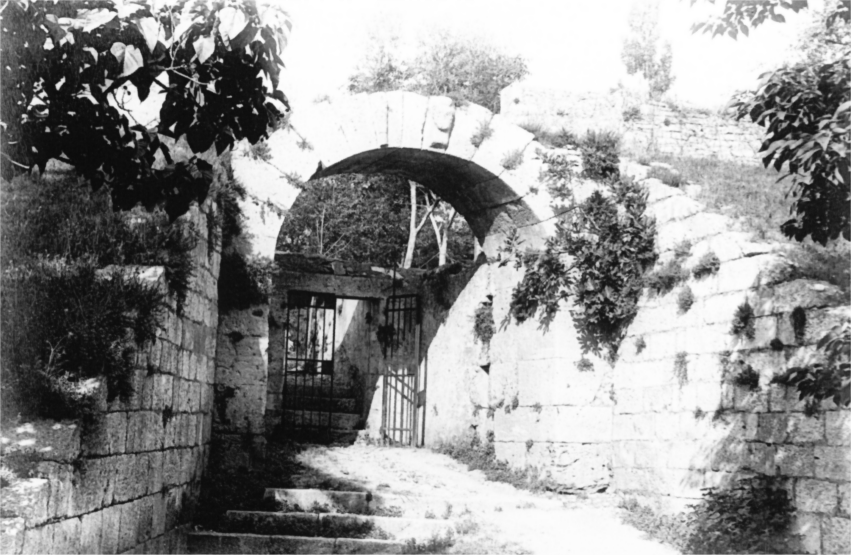 Alois Beer, The oldest building in Pula, a gate build 50 BC and named after Hercules, in 1887.